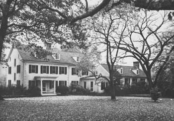 Jacob Broom House as photographed by Jack E. Boucher of HABS/NPS. Described as "Location: New Castle County, about 1 mile northwest of the Wilmington city limits, just north of New Bridge Road (Del. 141), Montchanin." which corresponds to the NRHP site Eleutherian Mills, listed November 13, 1966, North of Wilmington on Delaware Route 141 at Brandywine Creek Bridge 39°46′50″N 75°34′30″W Wilmington. Broom was the least known of the signers of the US Constitution. His House is a National Historic Landmark. He sold it and his mill to Eleuthere DuPont and the rest is history, except for the 3 or 4 NRHP sites that seem to occupy the same property. See Brandywine Powder Mills District, and Brandywine Manufacturers Sunday School. The house is also known as Hagley and we have an article for Hagley Library and Museum